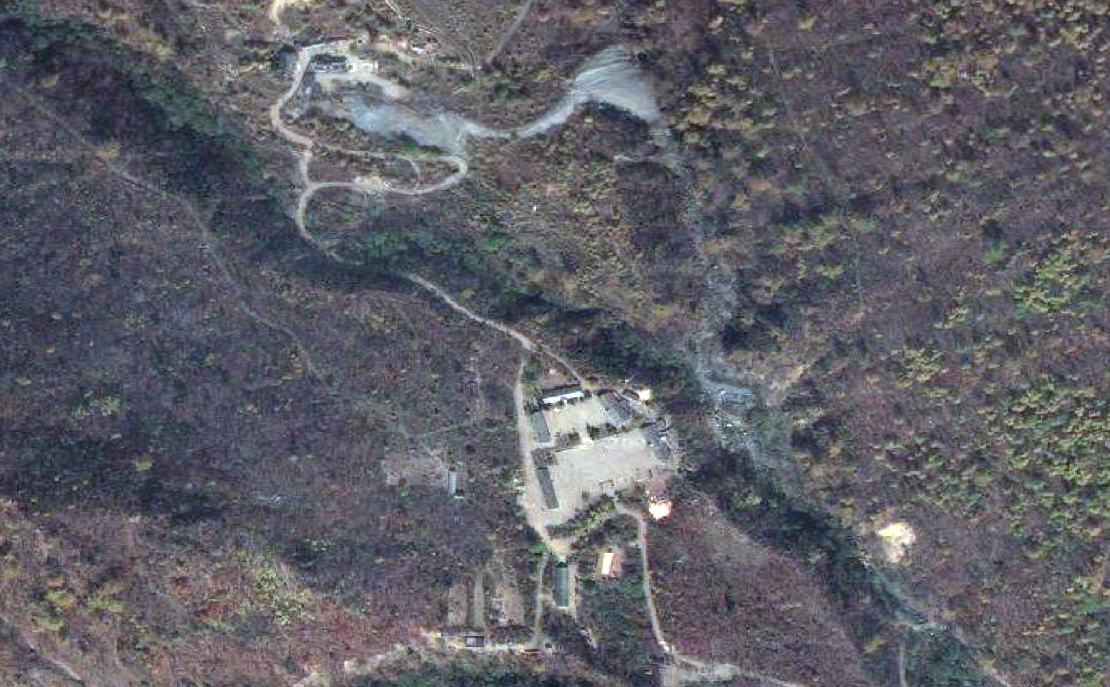 USGS information poster showing the intensity of the 2013 North Korean nuclear test.